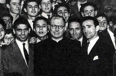 Father Lorenzo Massa (centre) with San Lorenzo's star Rinaldo Martino (left).